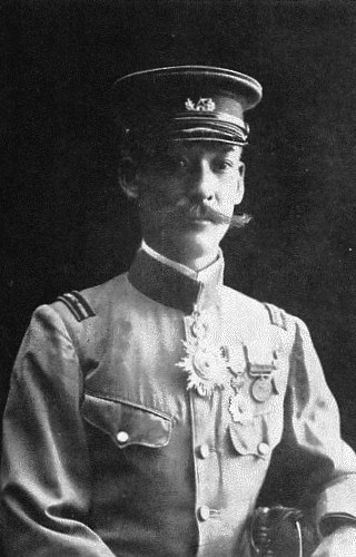 Takachika Shijo